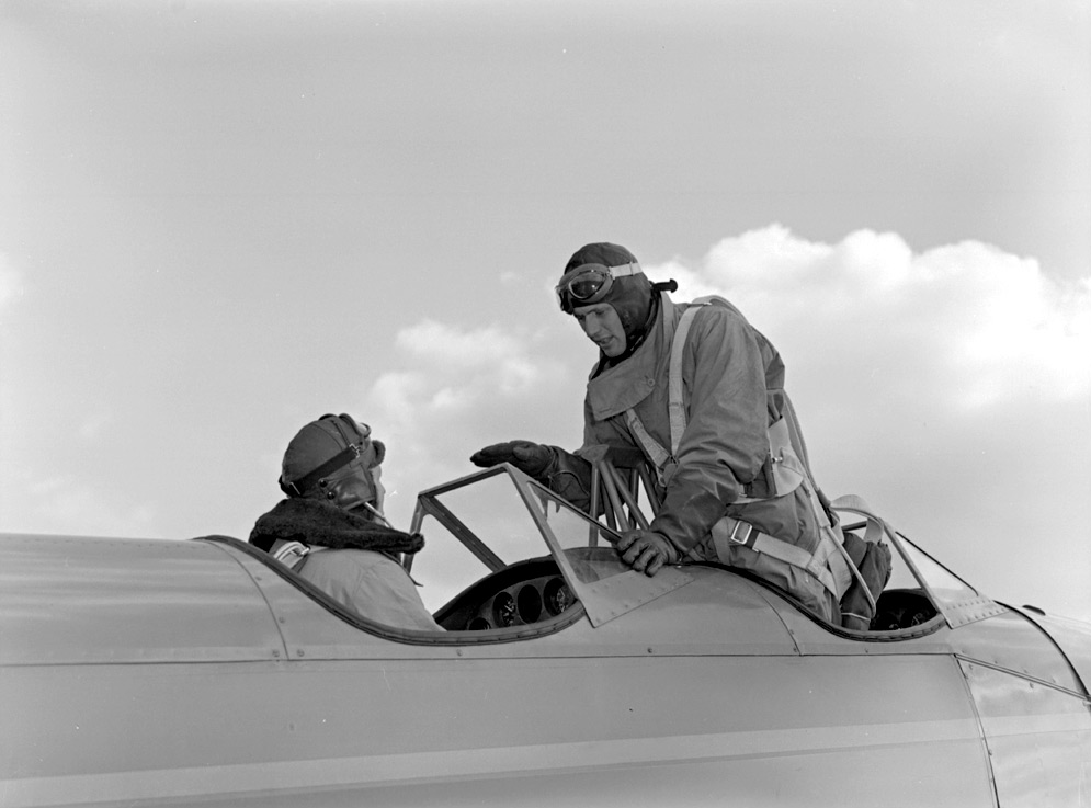 Airmen in cockpit, Little Norway, November 1940 (Toronto, Canada)